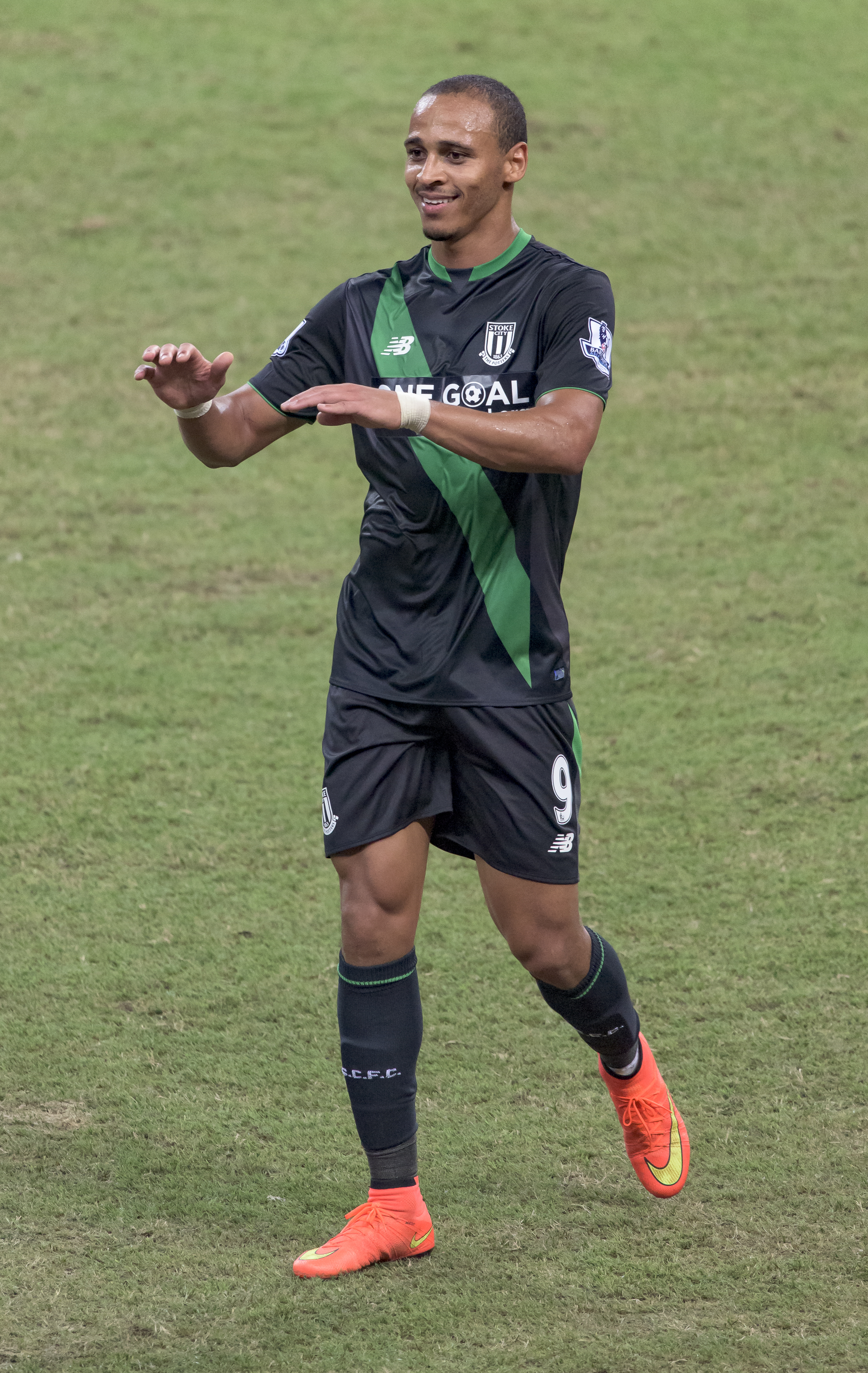 peter odemwingie stoke city fc barclays asia singapore 2015